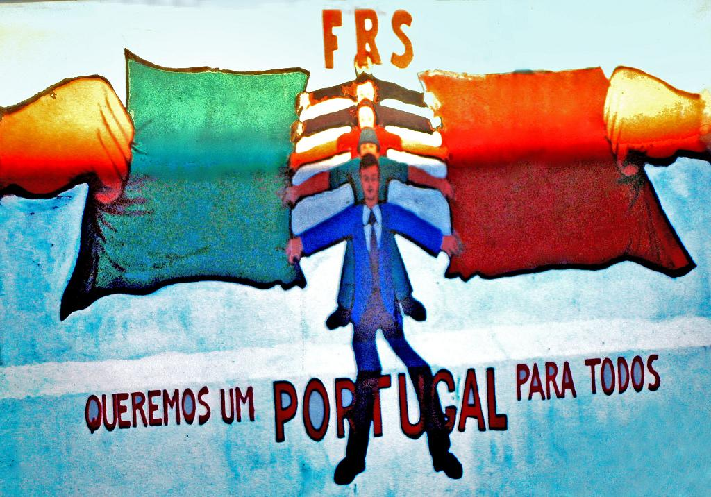 FRS - Republican and Socialist Front, 1980